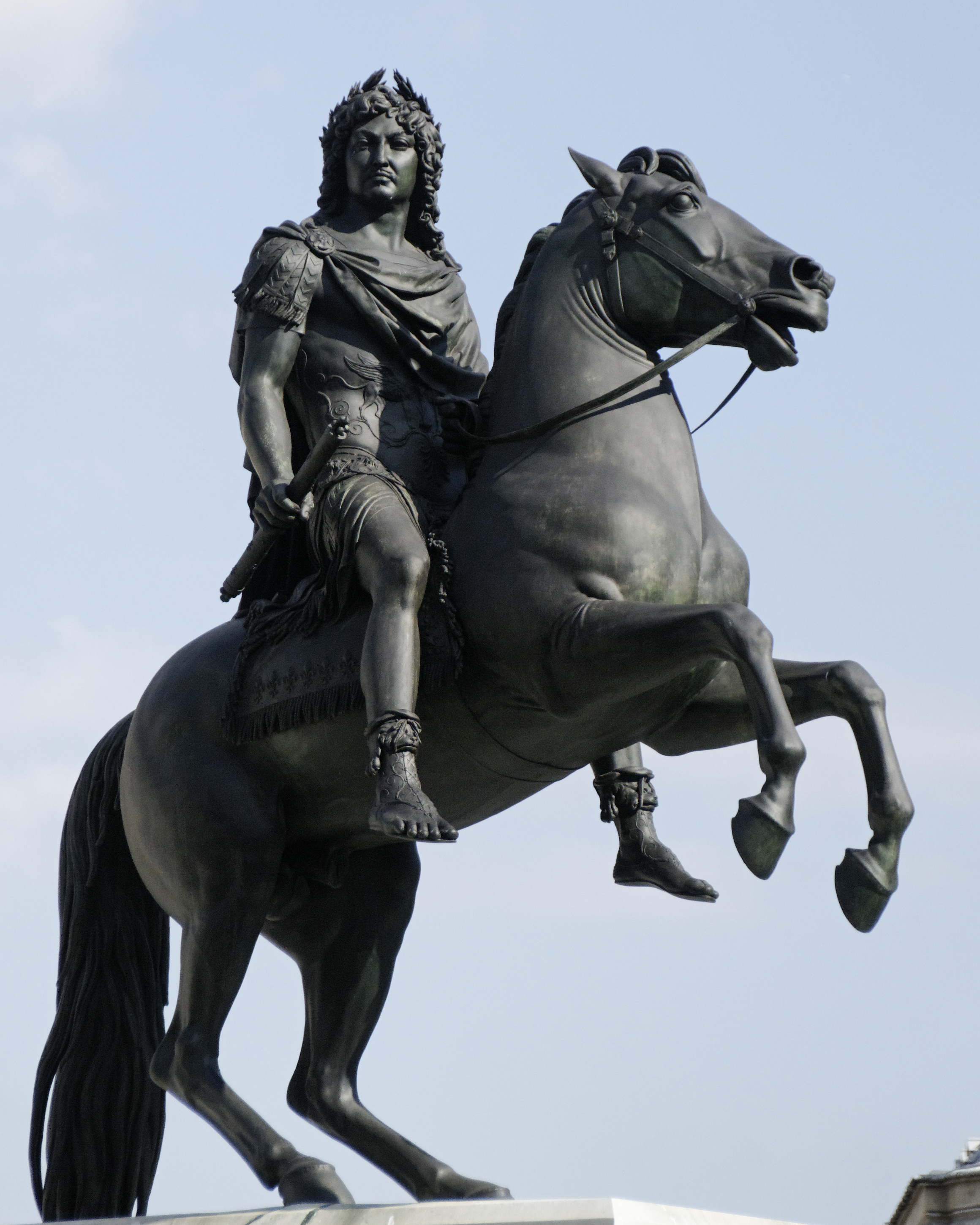 Equestrian statue of Louis XIV of France by François-Joseph Bosio. Bronze, 1822. Place des Victoires, Paris.